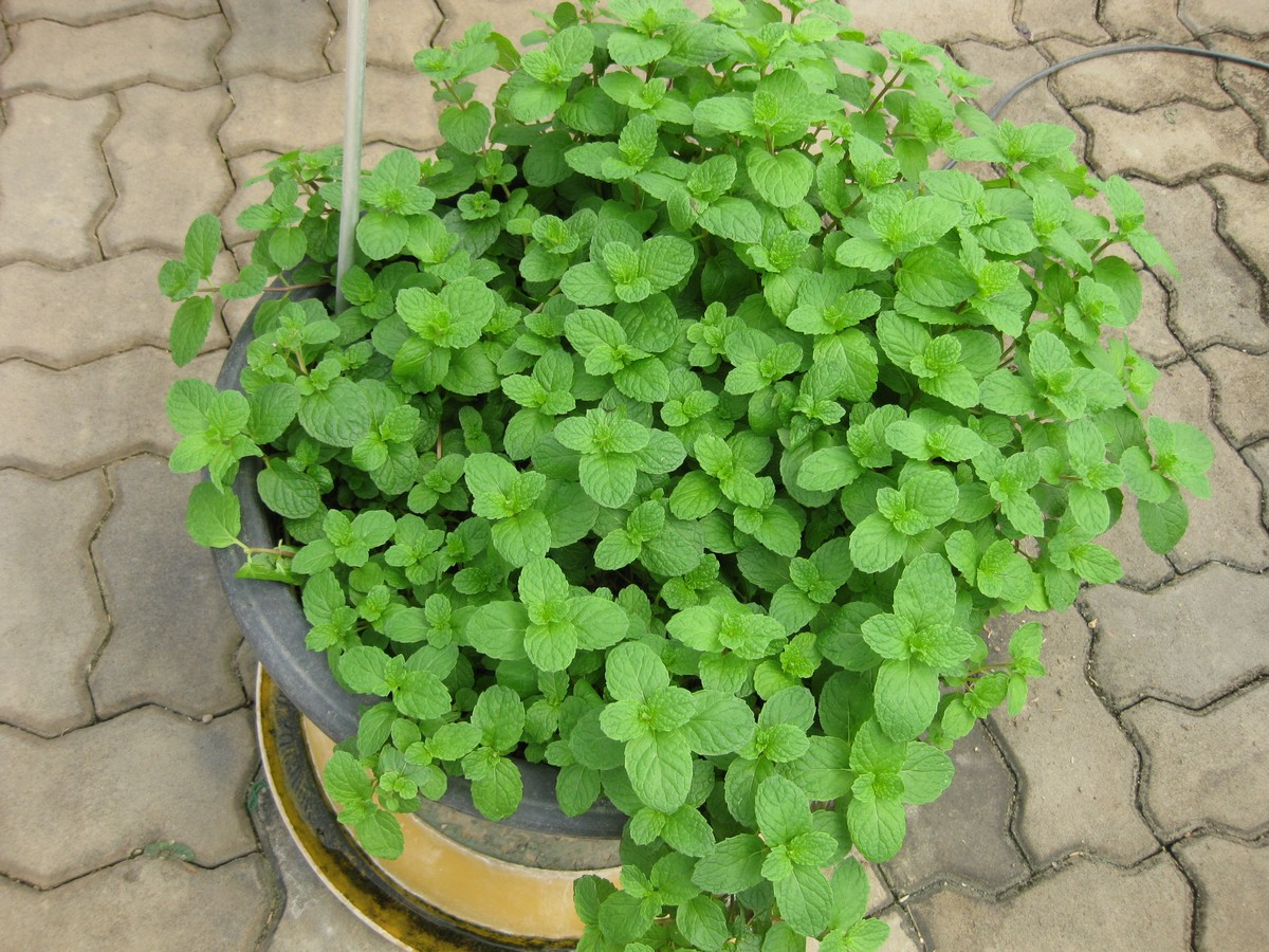 Mentha spicata L. subsp. spicata, syn. Mentha cordifolia Opiz ex Fresen. Photographed at the Queen Sirikit Botanic Garden (Chiang Mai Province, Thailand) in March